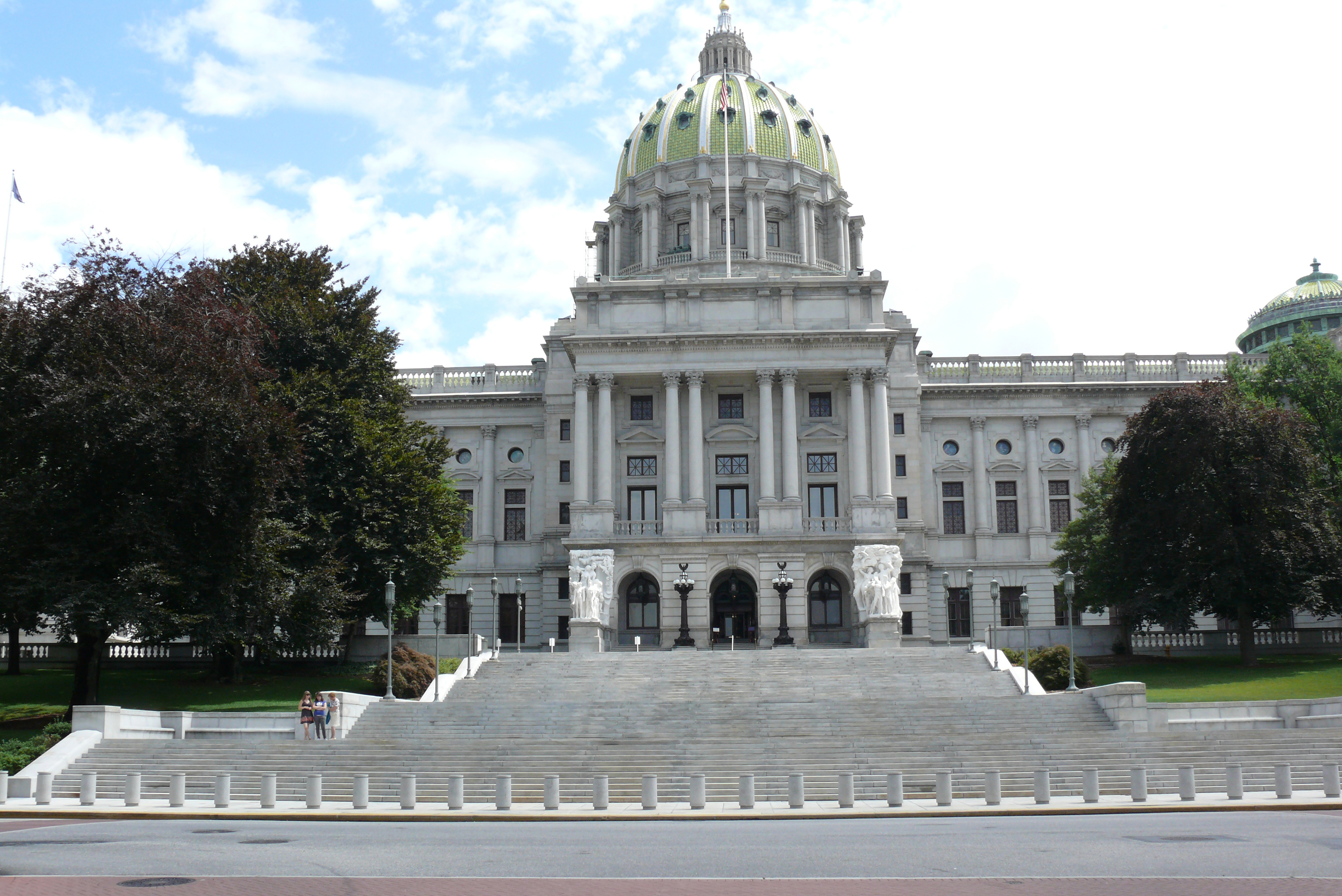 The Pennsylvania State Capitol was designed in 1902, in a Beaux-Arts style with Renaissance themes throughout. It is located in downtown Harrisburg. The entrance is flanked by two sculptures, entitled Love and Labor: The Unbroken Law and The Burden of Life: The Broken Law. Both were sculpted out of Carrara marble by George Grey Barnard in 1909.